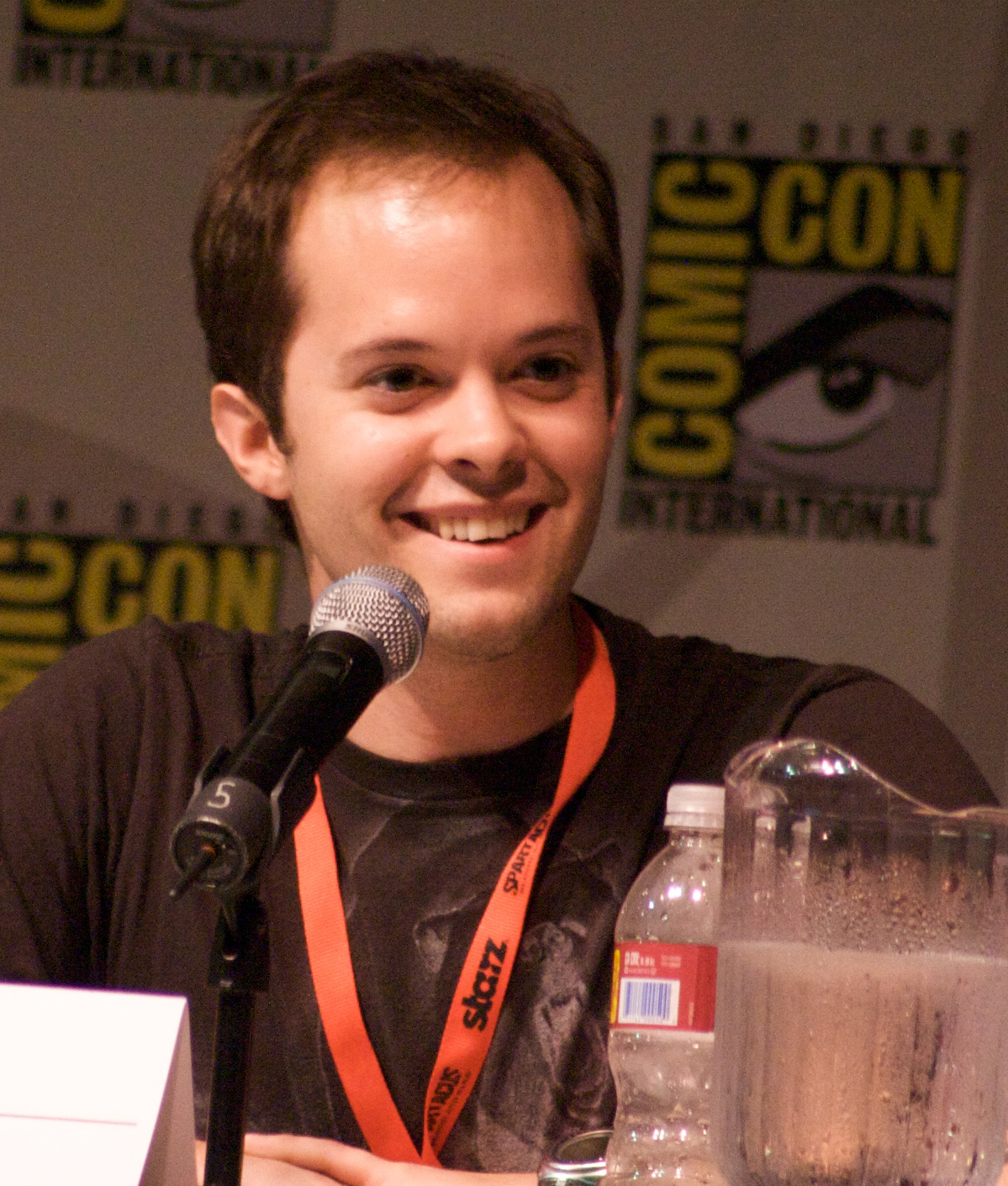 Neil Grayston at the 2009 Comic-Con International in San Diego, California.